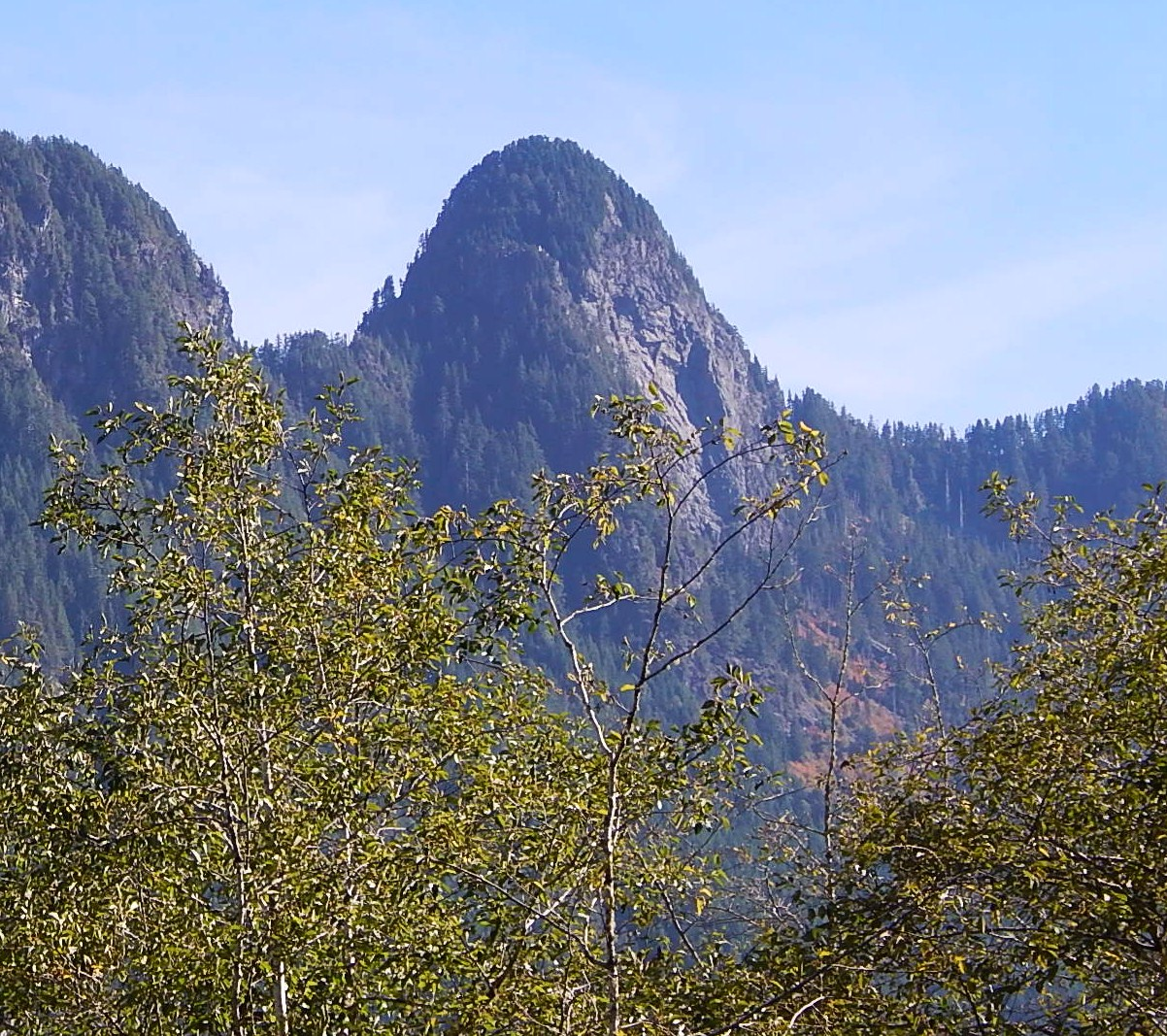 Little Comrade 4365' Near Russian Butte. Seen from Middle Fork Snoqualmie River Road. Washington State